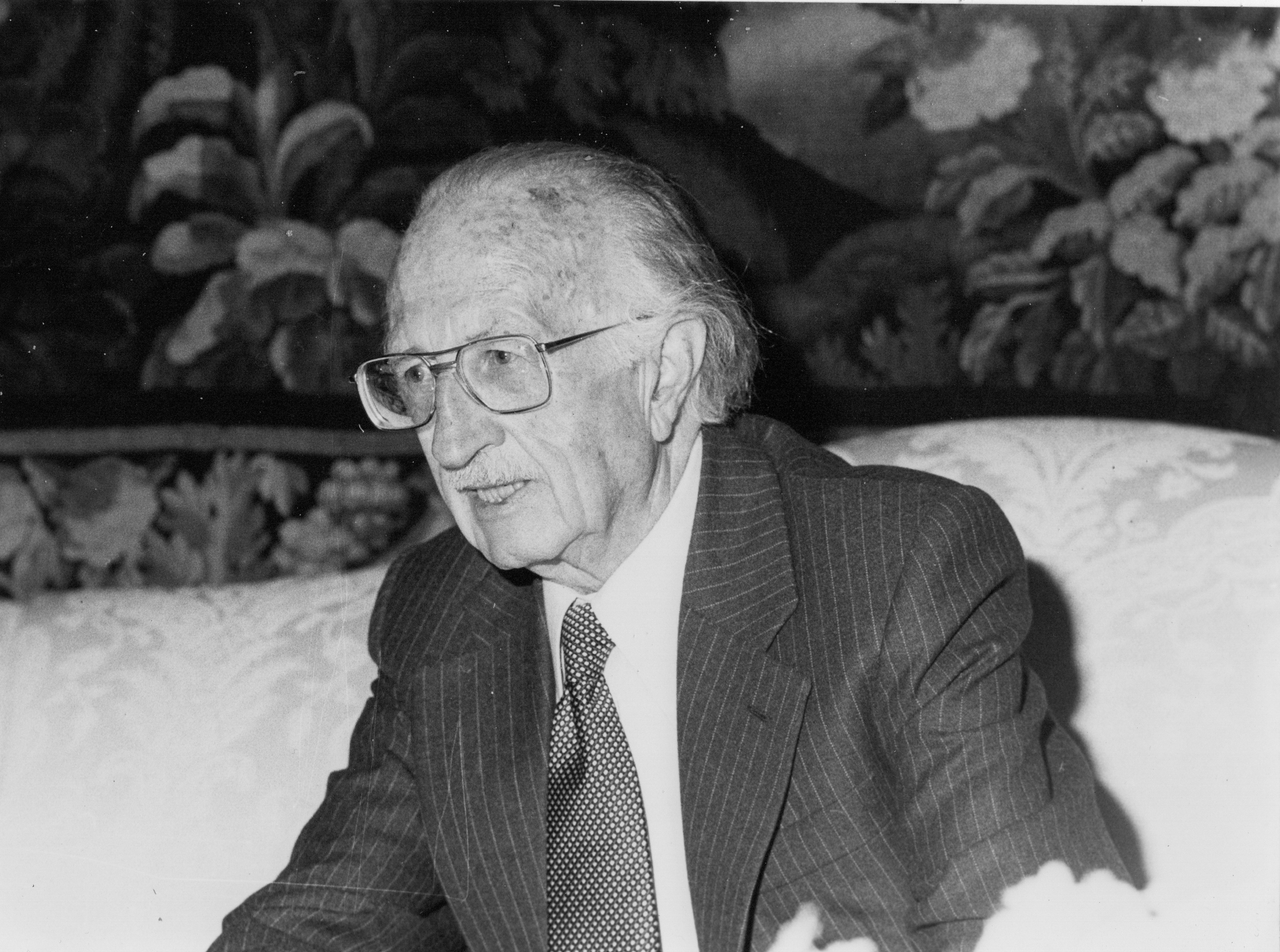 Anton Zischka